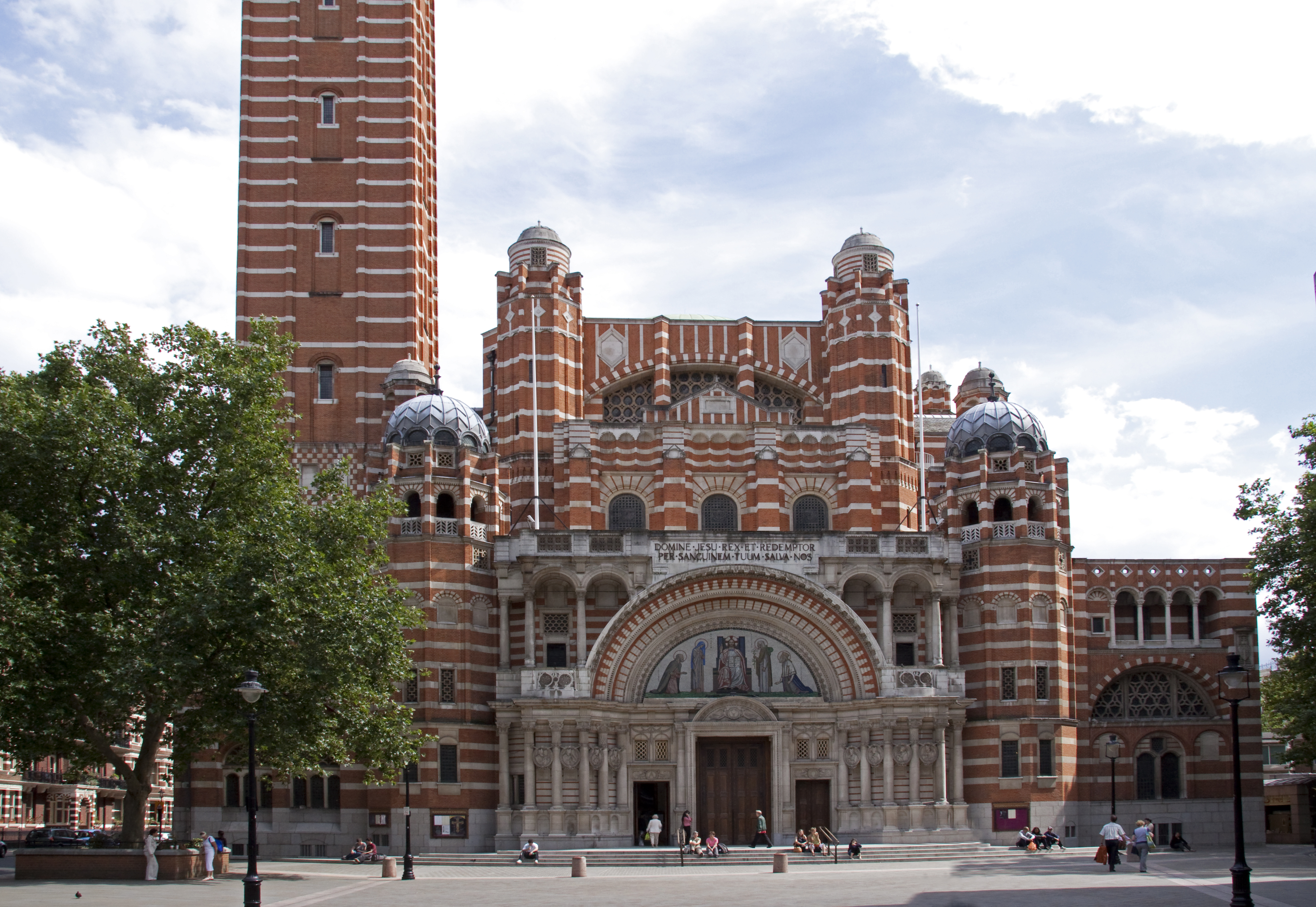 Westminster Cathedral 4